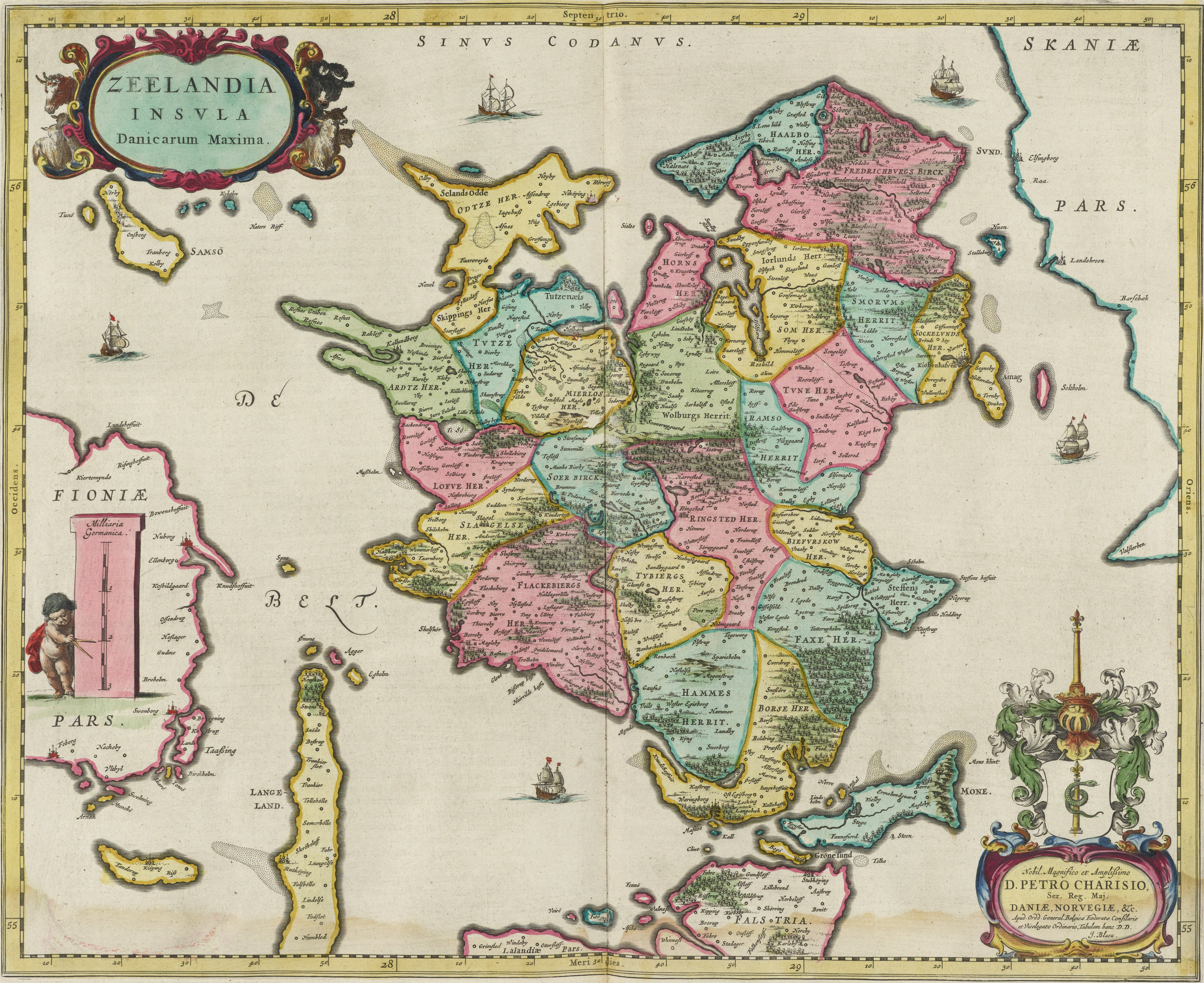 Historical map of Zealand, principal island of Denmark, with subdivision into hundreds (herred, formerly herrit)